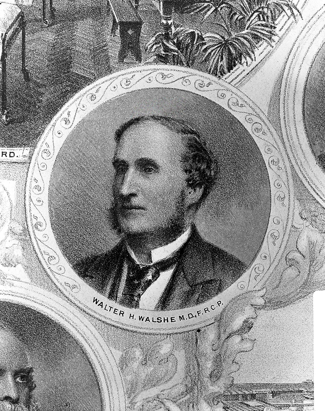 Portrait of W.H. Walshe. Wellcome Images Keywords: Walshe, Walter Hayle; Hall, H.